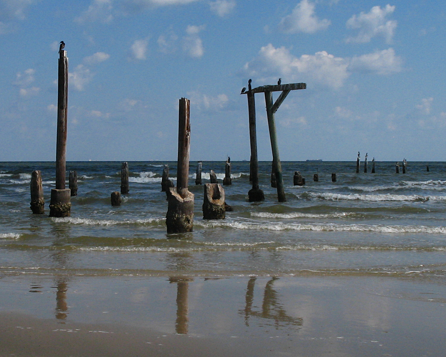 Galeston Texas after Hurricane Ike: Ruined site of the Balinese Room. Original caption: "In the 9 years I have been in Galveston I never once went to the Balinese Room. I reckon I never will now. "